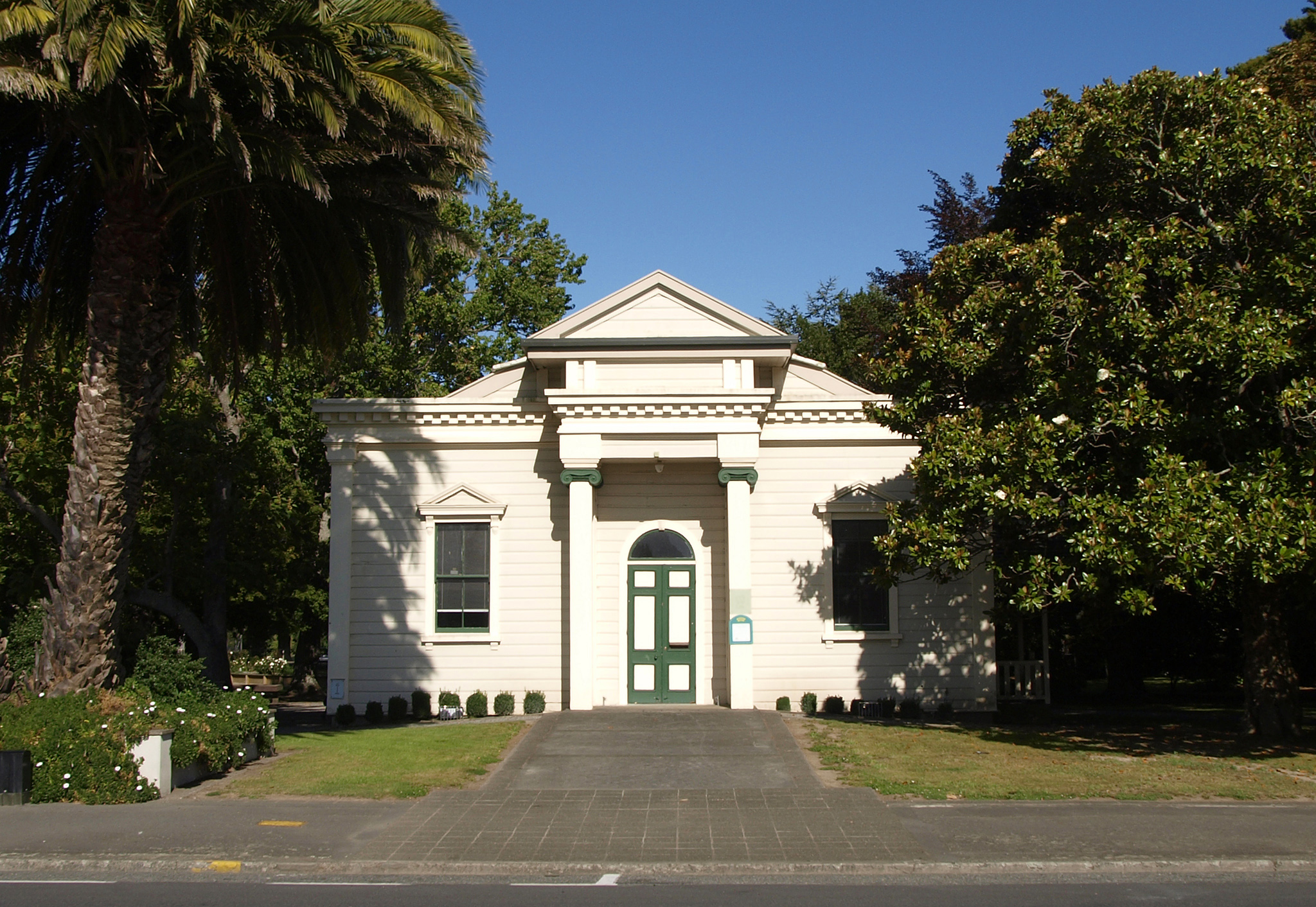 Library Building (1890), Greytown, Wellington Region, New Zealand